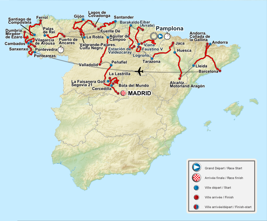 Route and Stages of the Vuelta a España 2012